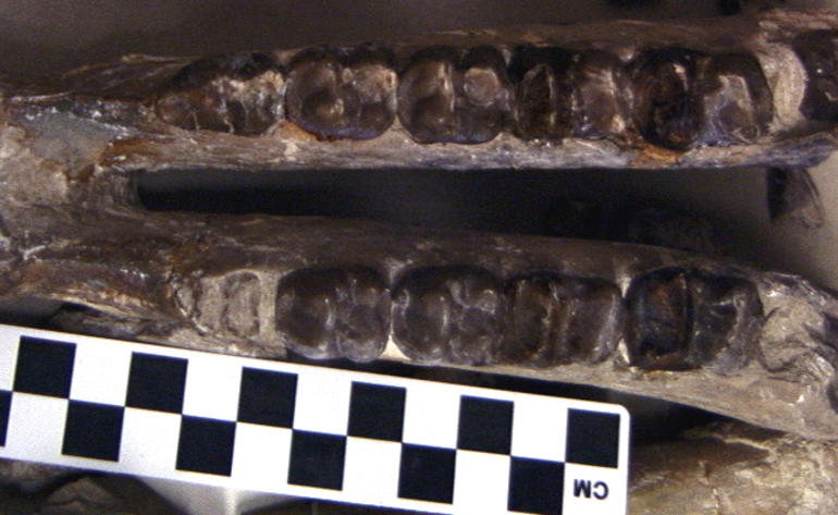 Protapirus robustus jaw, University of California Museum of Paleontology